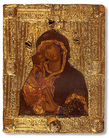 Copy of the Icon of the Virgin Mary of the Don to the Holy Trinity-St. Sergius Lavra